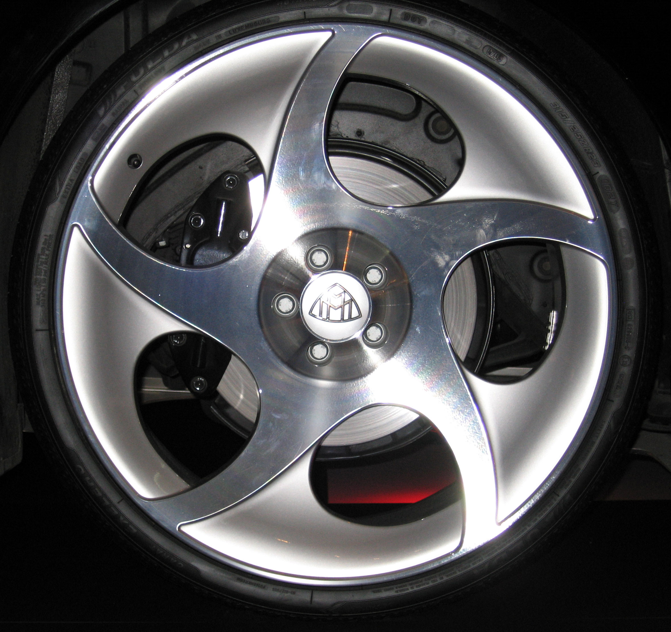 Maybach Exelero Wheel at the IAA 2005